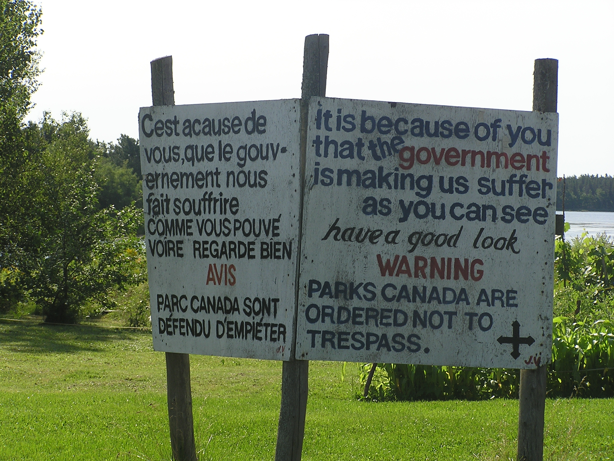 Sign on property of Jackie Vautour, Kouchibouguac National Park protester, New Brunswick, Canada